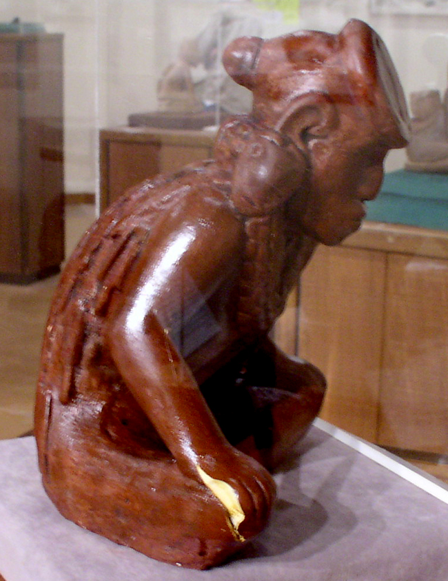 A Missouri flint clay effigy pipe called "Big Boy" found at the Spiro Mounds site.